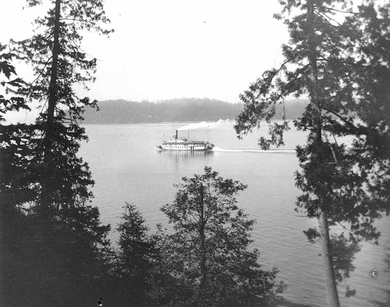 Multnomah (sternwheel steamboat) in Puget Sound, viewed from Point Defiance Park, July 26, 1898.